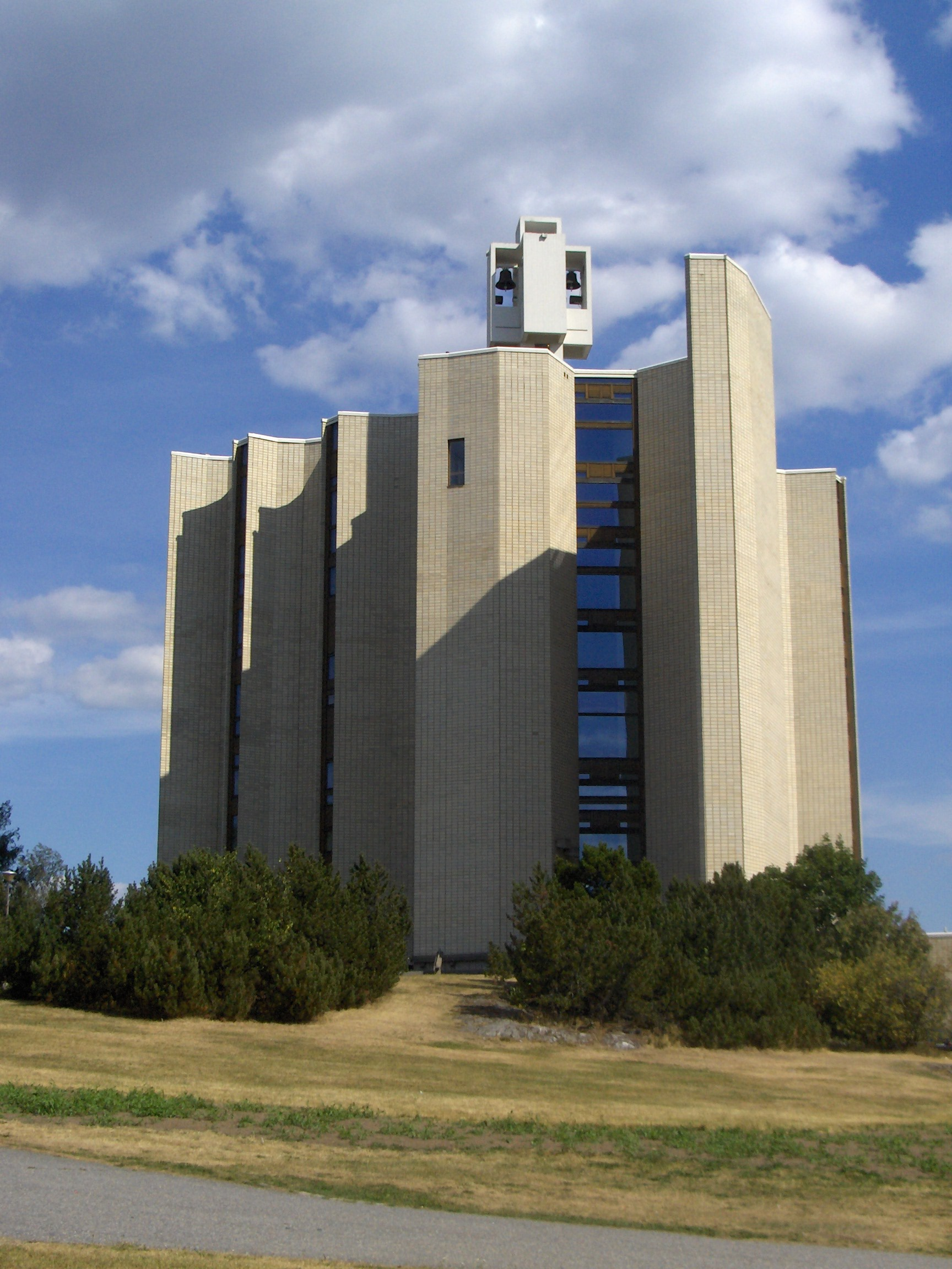 Kaleva Church in Tampere, Finland